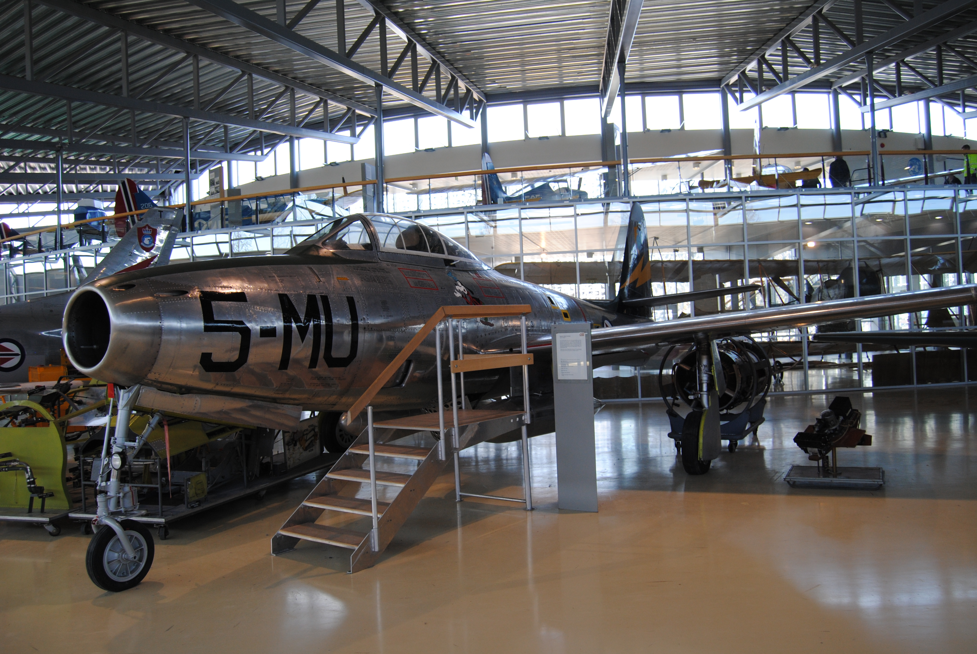 Republic F-84G Thunderjet displayed at the Norwegian Armed Forces Aircraft Collection